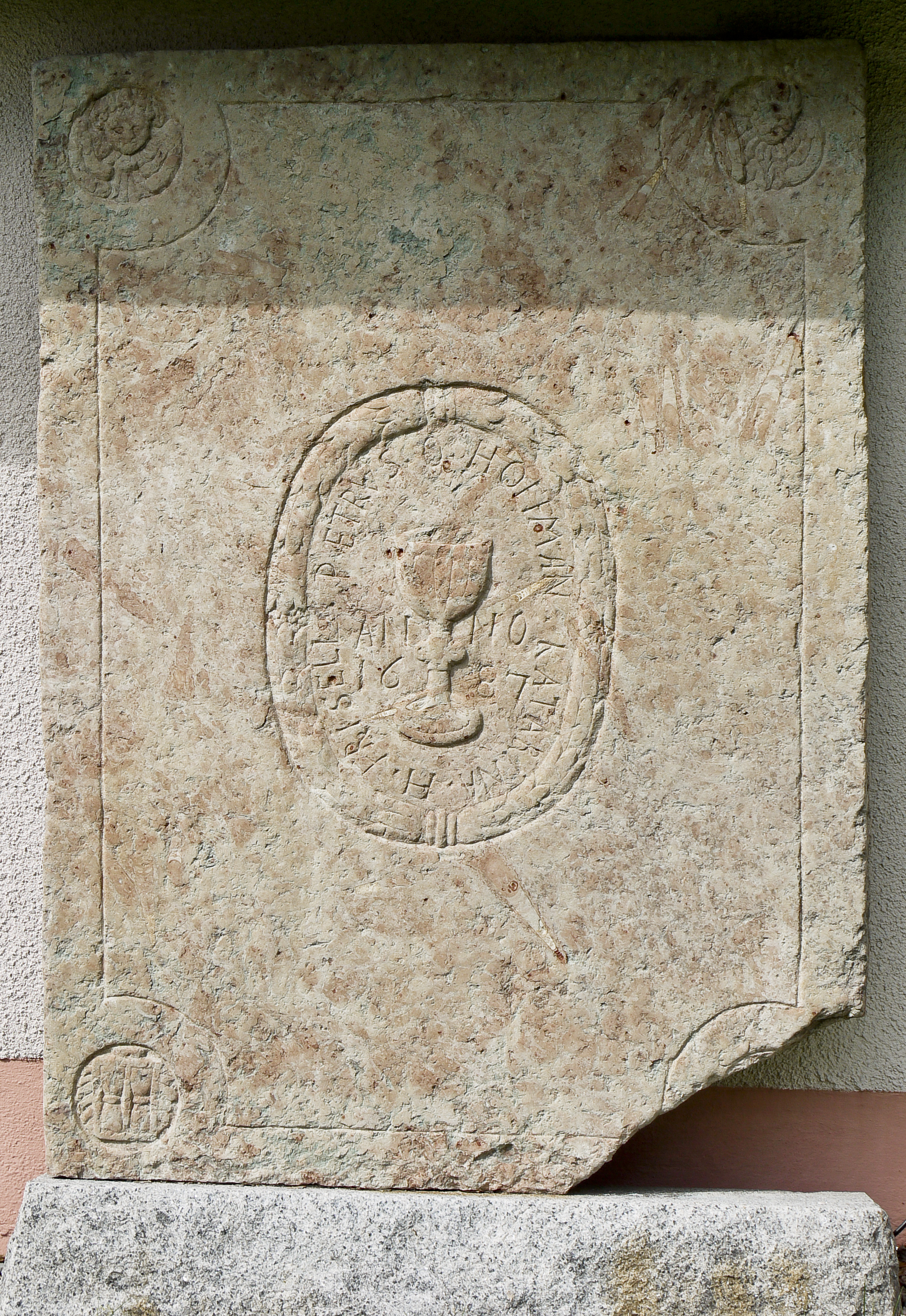 Harmånger church. Diocese of Uppsala, Harmånger, Sweden. Tombstone.